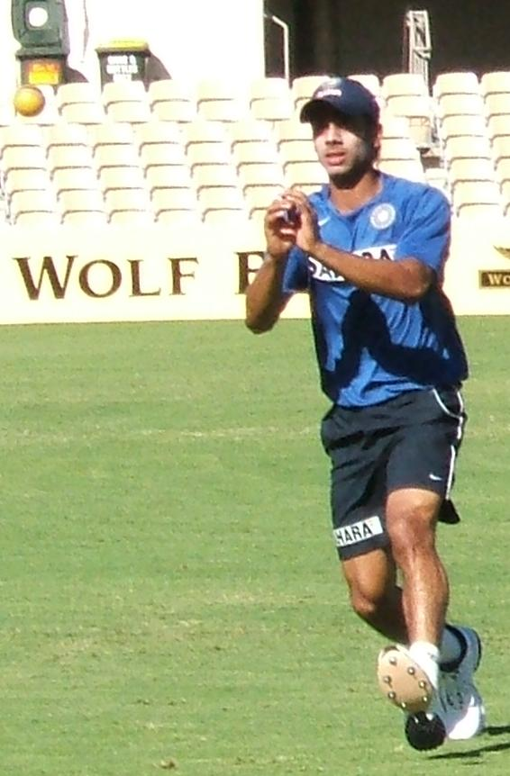 Manoj Tiwary at Adelaide Oval